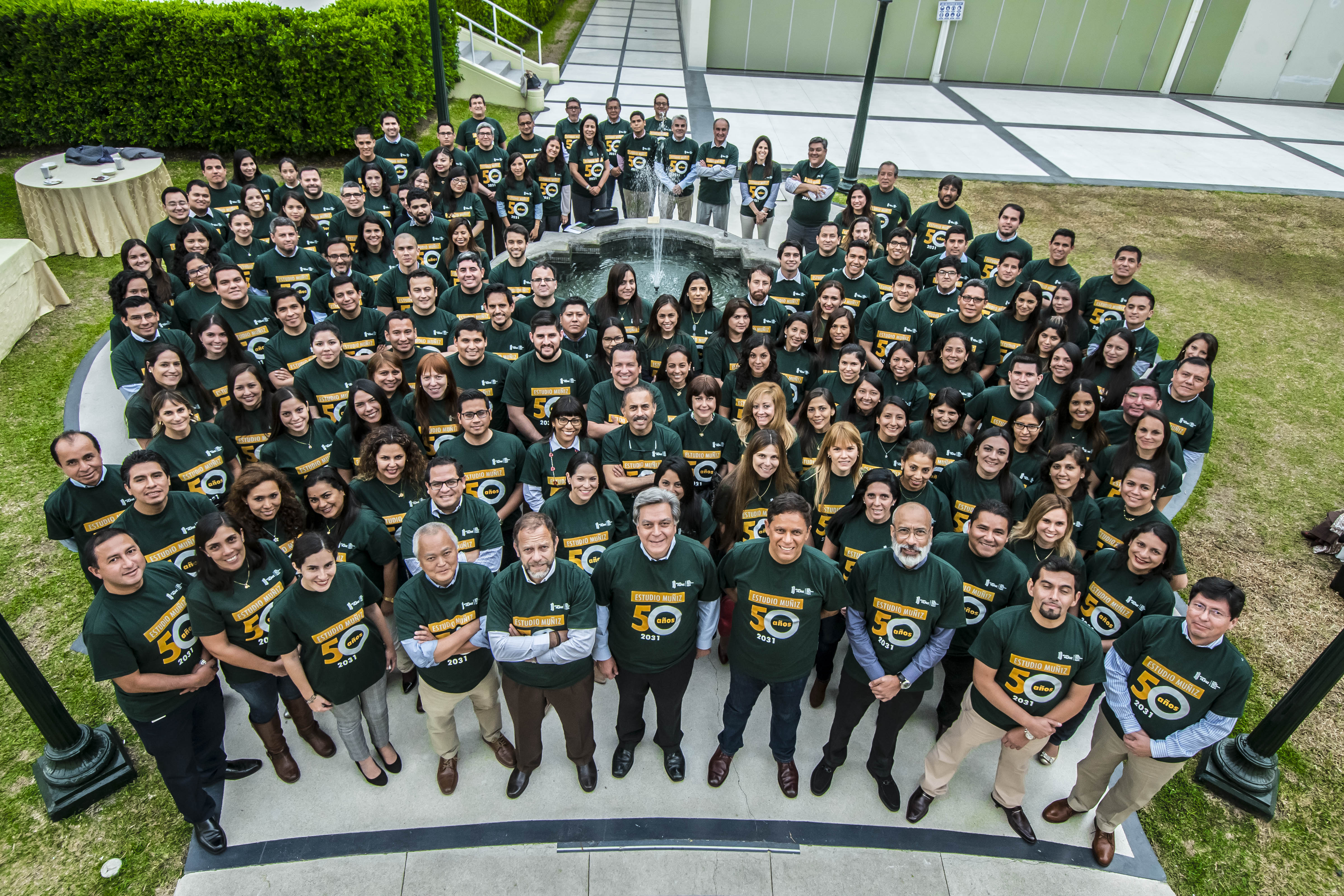 Estudio muñiz personal